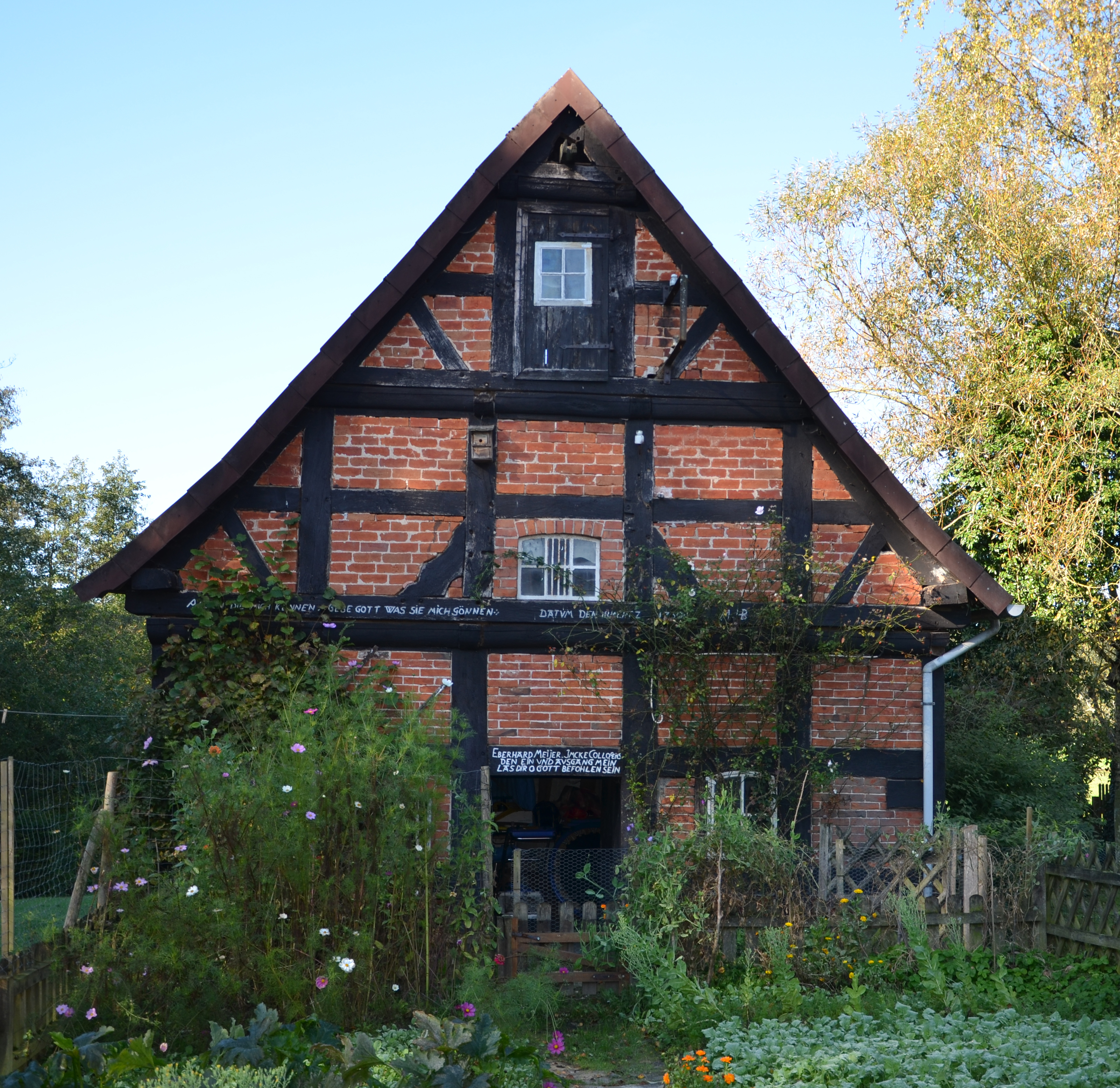 Cultural heritage monument in Bassum Schorlingborstel